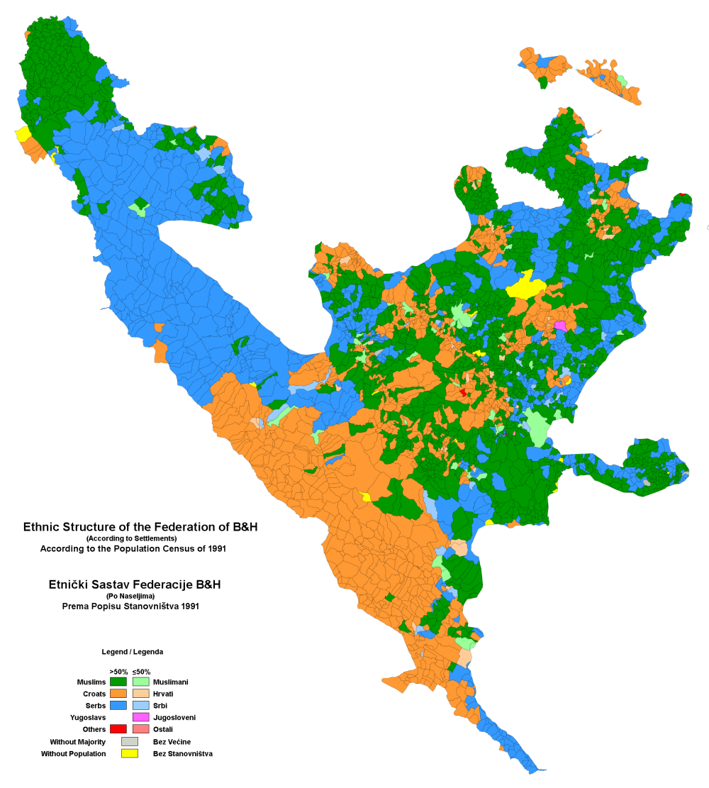 This is an ethnic map of the (Muslim-Croat) Federation of Bosnia and Herzegovina, according to the 1991 population census.